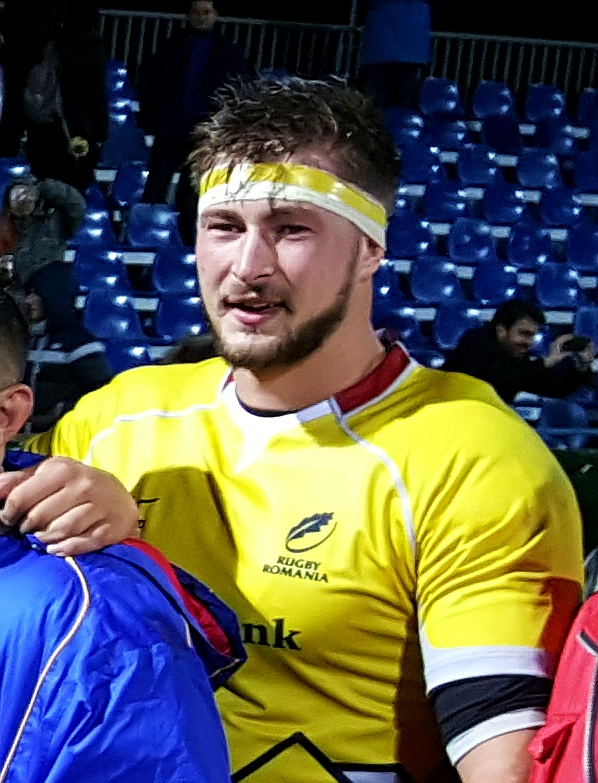 Marius Antonescu of Romania National Rugby Team after a test match against United States National Rugby Team in November 2016